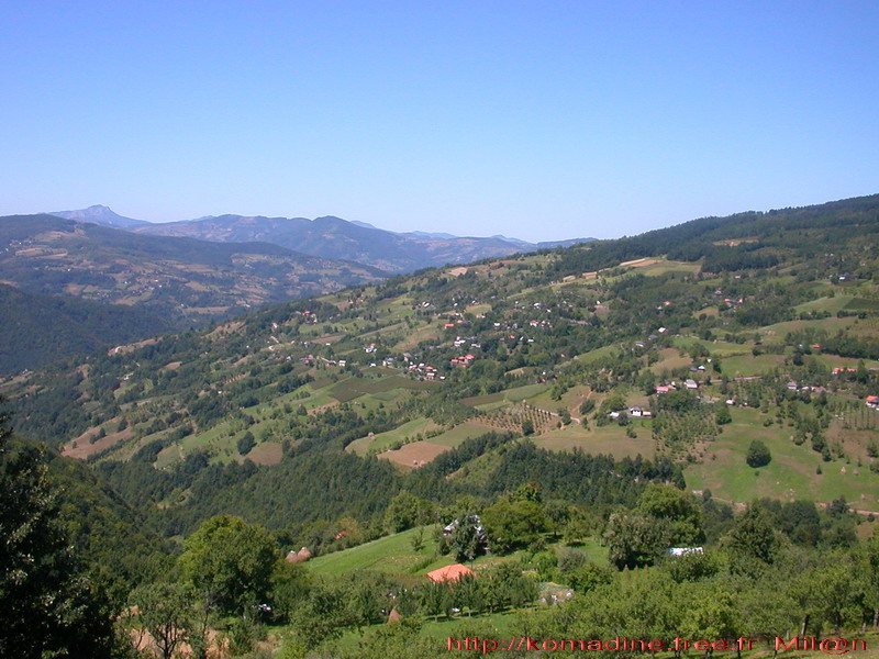 Panoramic view of the village of Komadine, Serbia